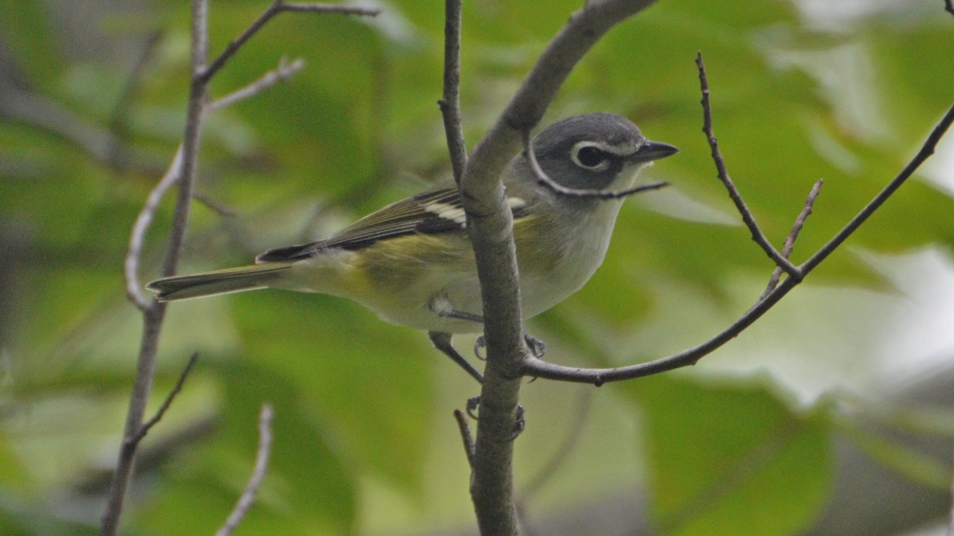 Tower Grove Park 9/27/12